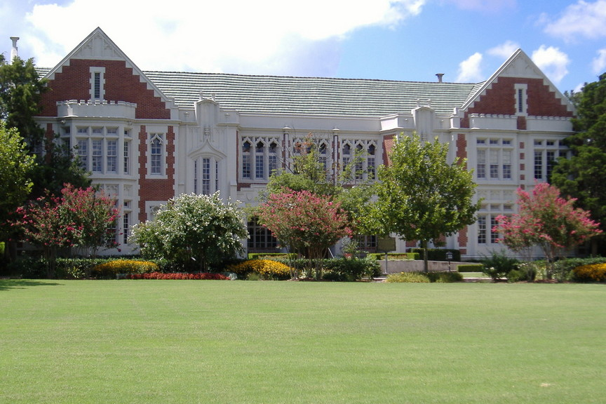 Jacobson Hall in Norman, OK.